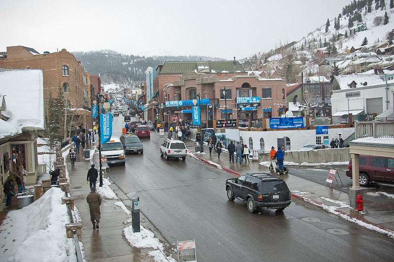 The Cosmopolitan of Las Vegas team hit Park City, UT for the 2011 Sundance Film Festival. Festival goers had a chance to experience The Cosmopolitan's signature design elements, specialty cocktails and a fun photo booth. The Cosmopolitan's custom designed suite and lounge is on the second floor of the Sundance Channel HQ House at 692 Main Street from January 20-30th. For more information or to book a room, visit: Find The Cosmopolitan on... Twitter: @Cosmopolitan_LV Facebook: YouTube: Photo by Kevin Winzeler